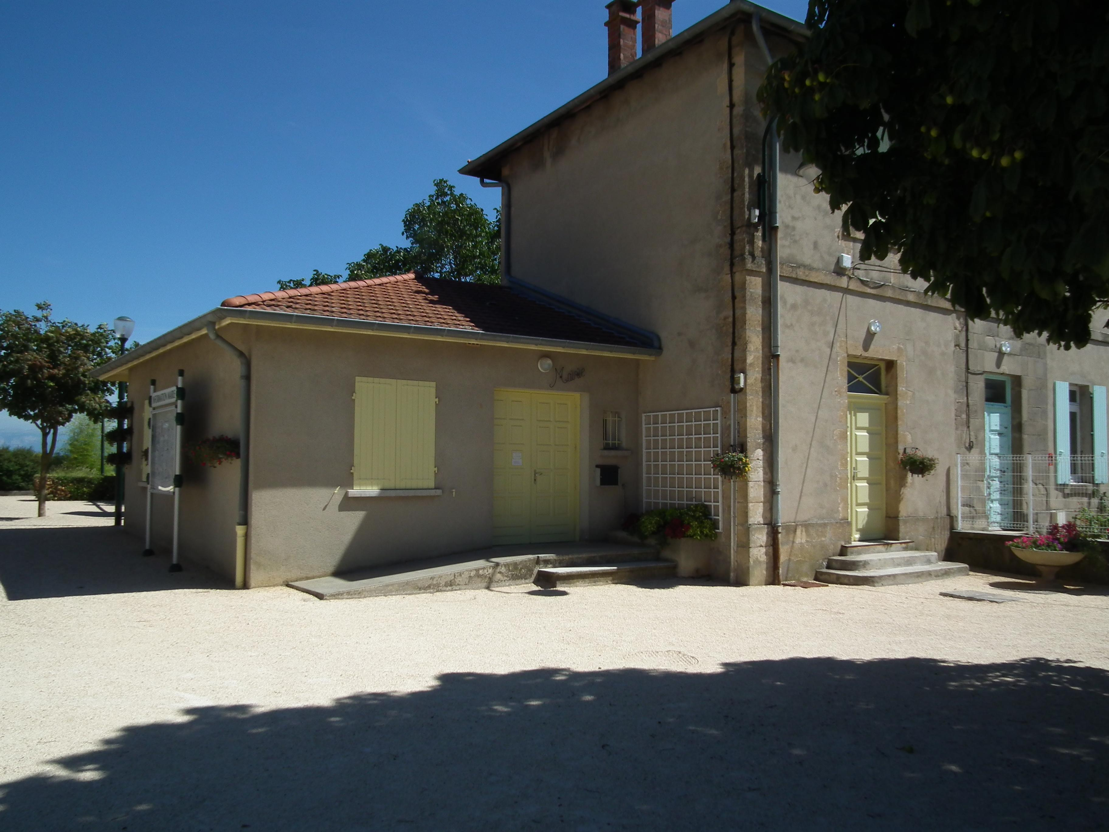 Town hall of Saint-Bardoux - Drôme - France